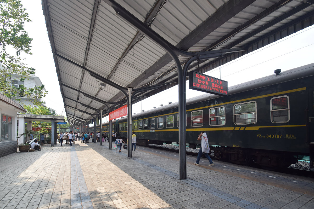 5639 train was stopping at platform 1 of Kaili Railway Station